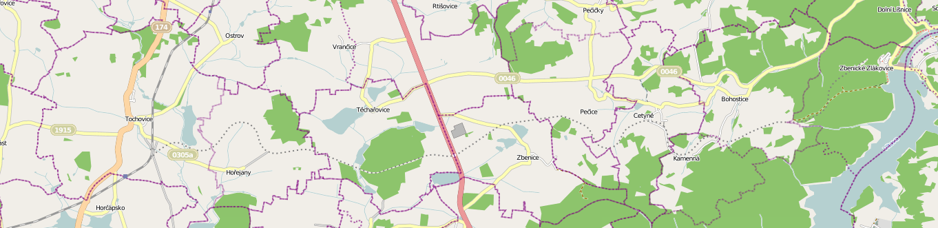 This map of Orlík was created from OpenStreetMap project data, collected by the community. This map may be incomplete, and may contain errors. Don't rely solely on it for navigation.